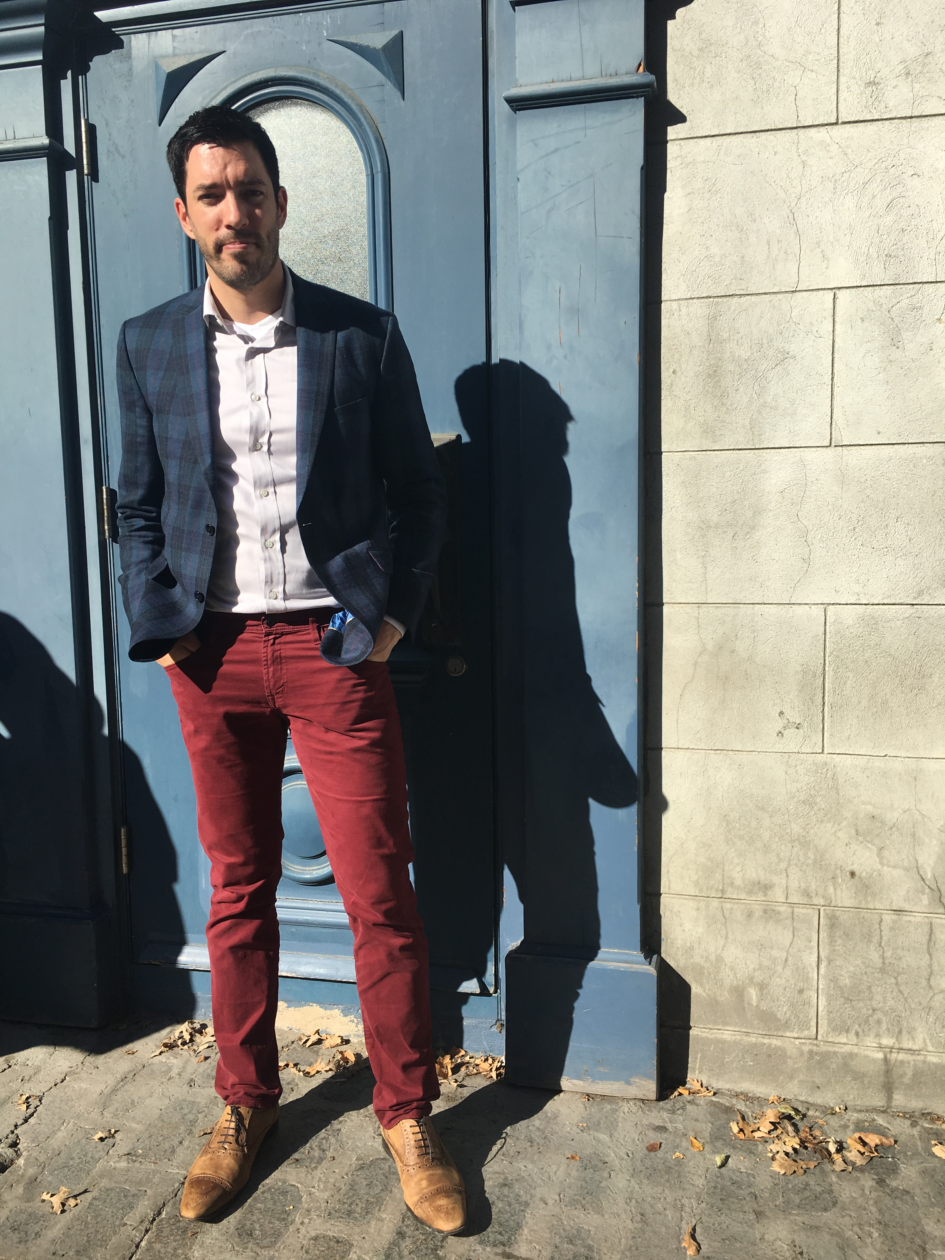 Drew Scott of Property Brothers filming in Quebec City.